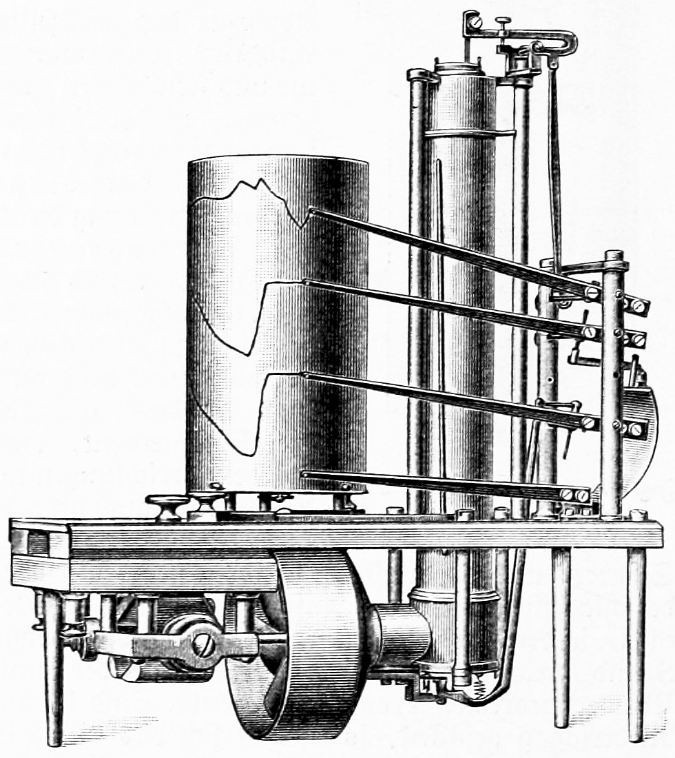 Baro-Thermo-Hygrograph by Hugo Hergesell